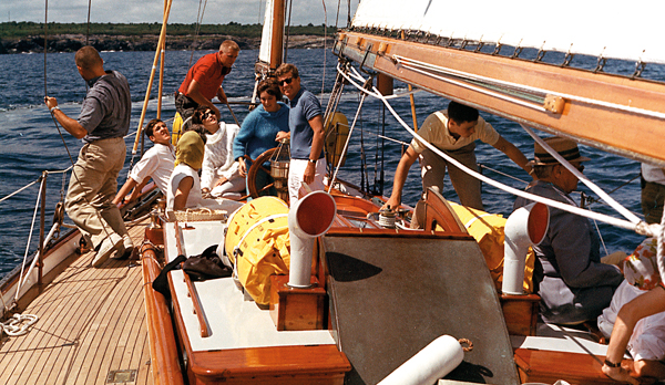 President Kennedy and party, including John Kerry (in white) sail aboard the U. S. Coast Guard Yacht "Manitou". Narragansett Bay, Rhode Island.